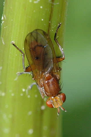 Picture taken in Commanster, Belgian High Ardennes . Species: Tetanocera arrogans